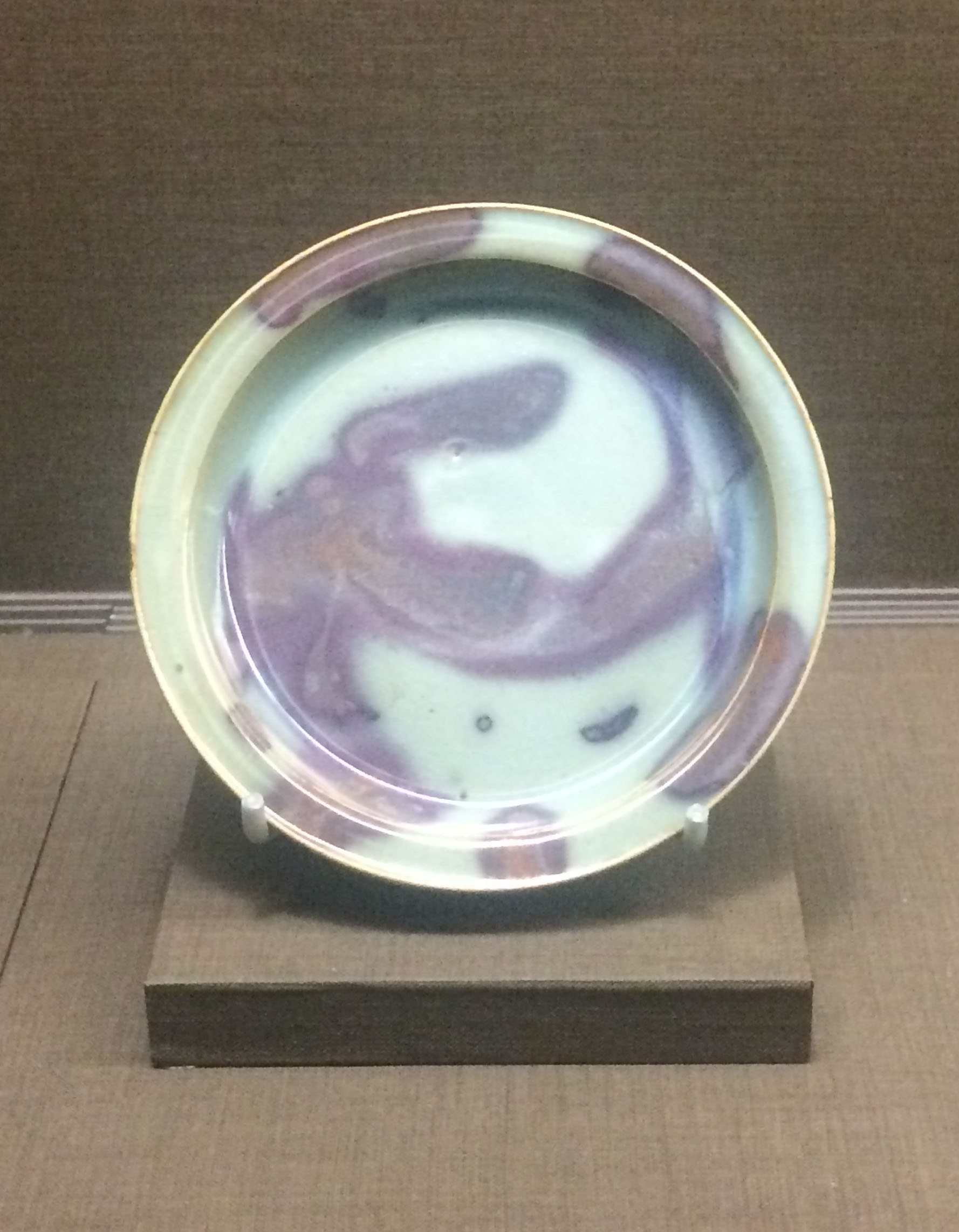 Dish with greenish-blue glaze and purple splashes